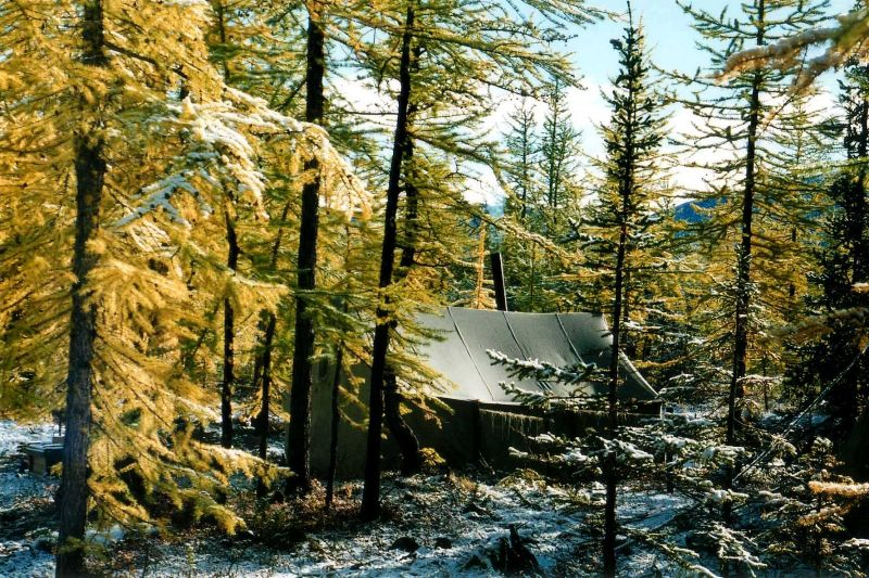 Larix sibirica in autumn colour (yellow) and Picea obovata (dark green, middle-right) with dusting of fresh snow. In the Ural Mountains, Russia.